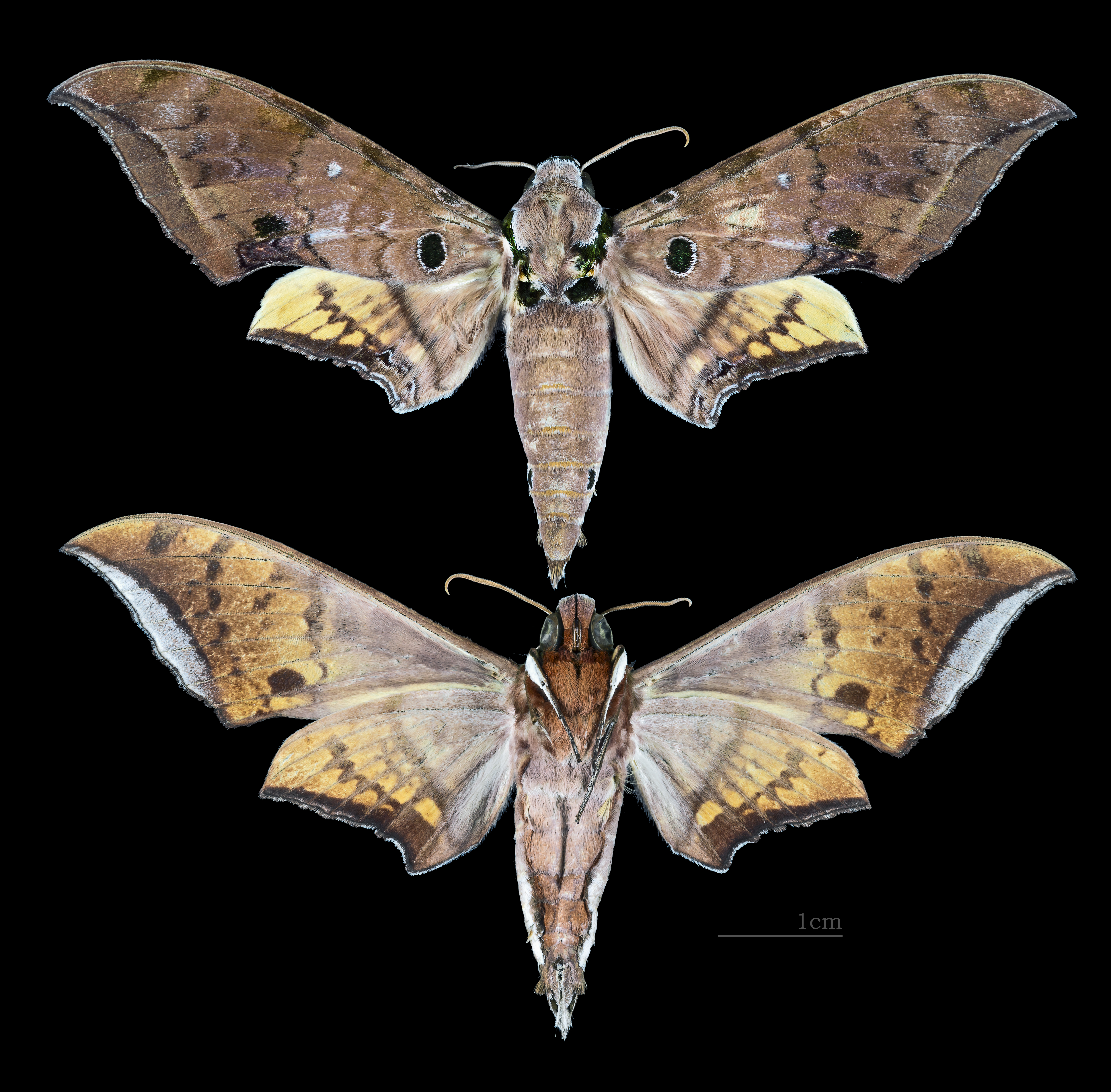 Ambulyx doherty - Two views of same specimen Collection of the Mathematician Laurent Schwartz